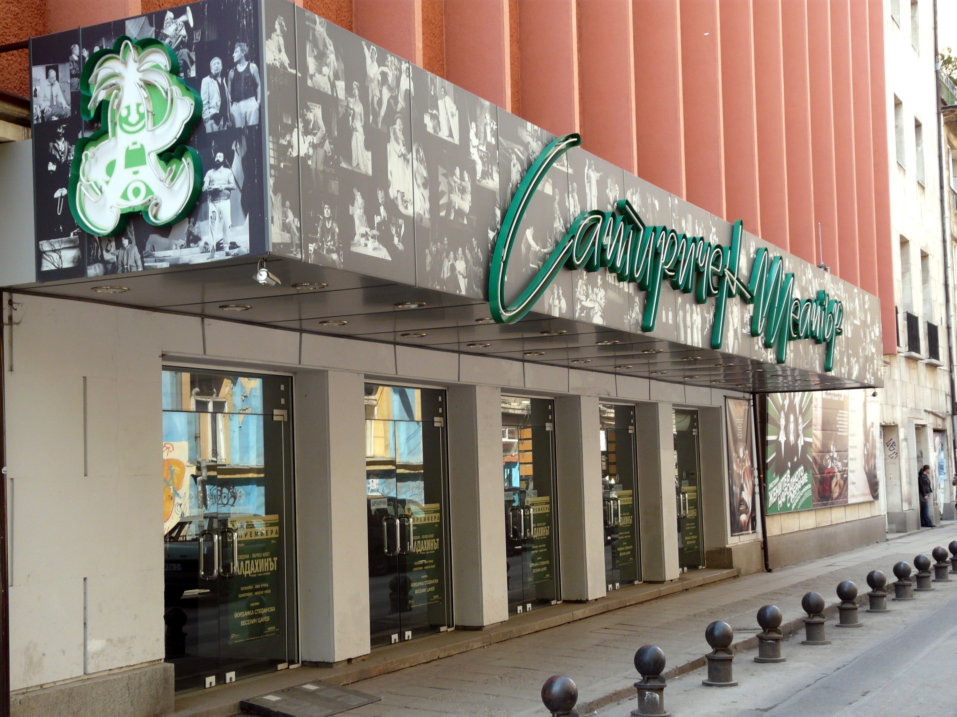 Staricial Theatre - Sofia